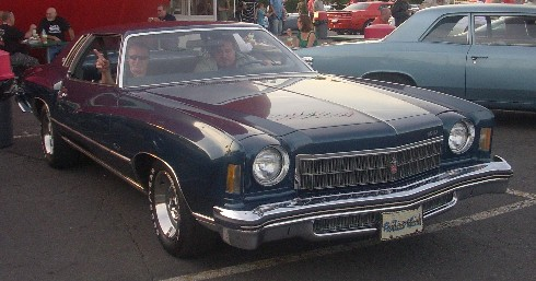 1975 Chevrolet Monte Carlo photographed in Montreal, Quebec, Canada at Gibeau Orange Julep.